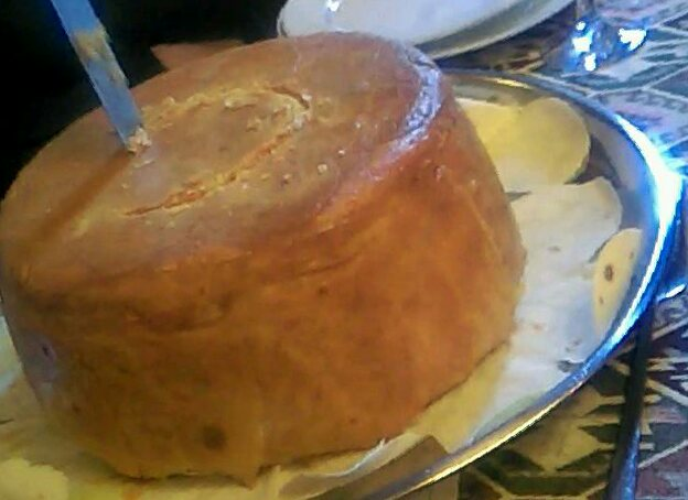 Şah plov Milli mətbəx